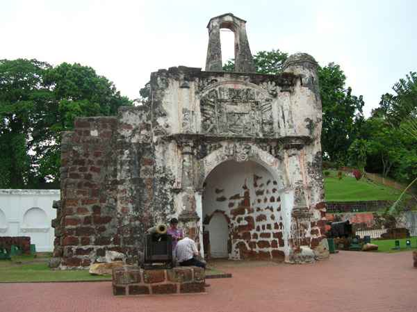 The only surviving remains of the Porta de Santigo Portuguese fort or A Famosa in Malacca, Malaysia is this small gatehouse. This picture is taken by Daniel Yahya.